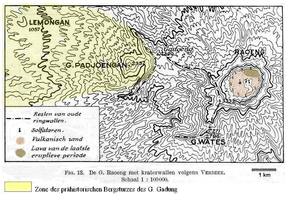 Gunung Raung volcano with crater remains